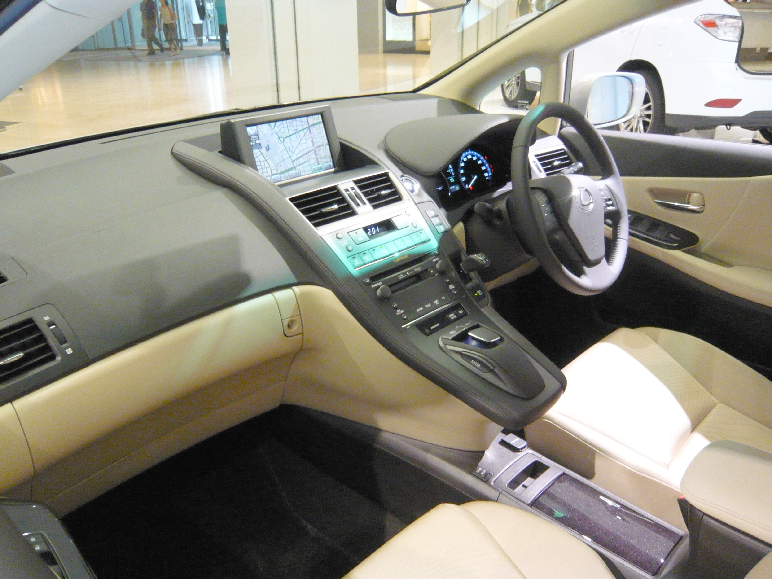 Interior of HS250h